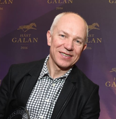 Örjan Kihlström at "Hästgalan" 2016.